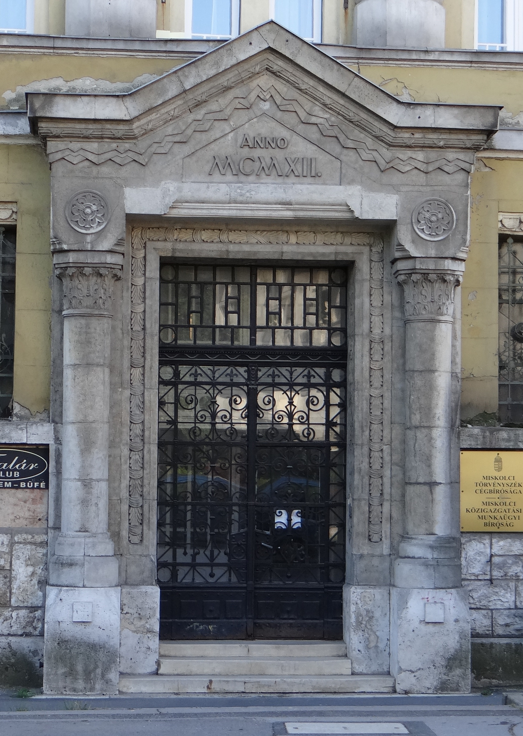 Former Finance Palace, now Building of County Archives and Labour Court, 2 Fazekas Street, Miskolc, Hungary